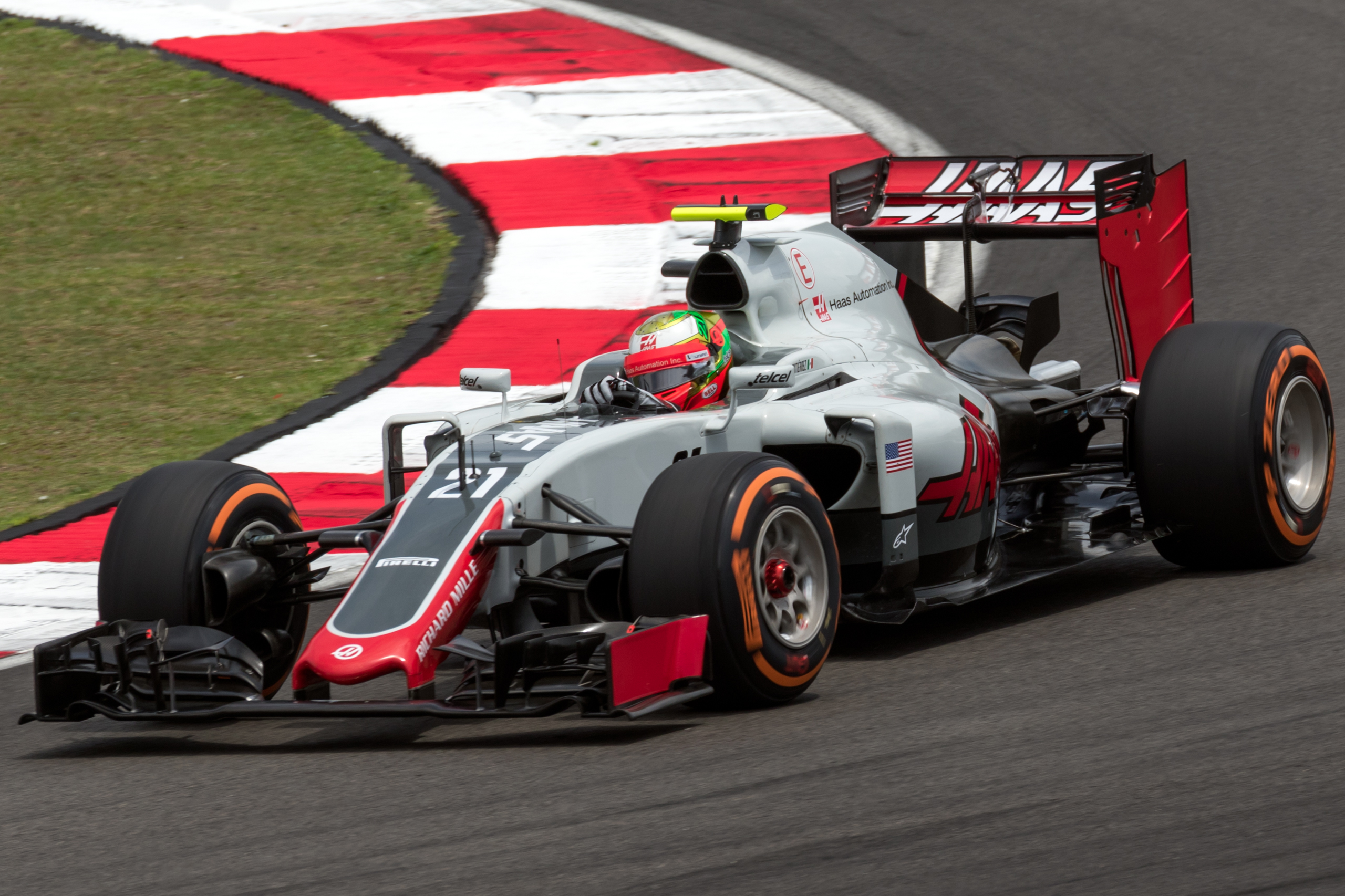 Formula One 2016 Rd.16 Malaysian GP: Esteban Gutiérrez (Haas F1 Team)